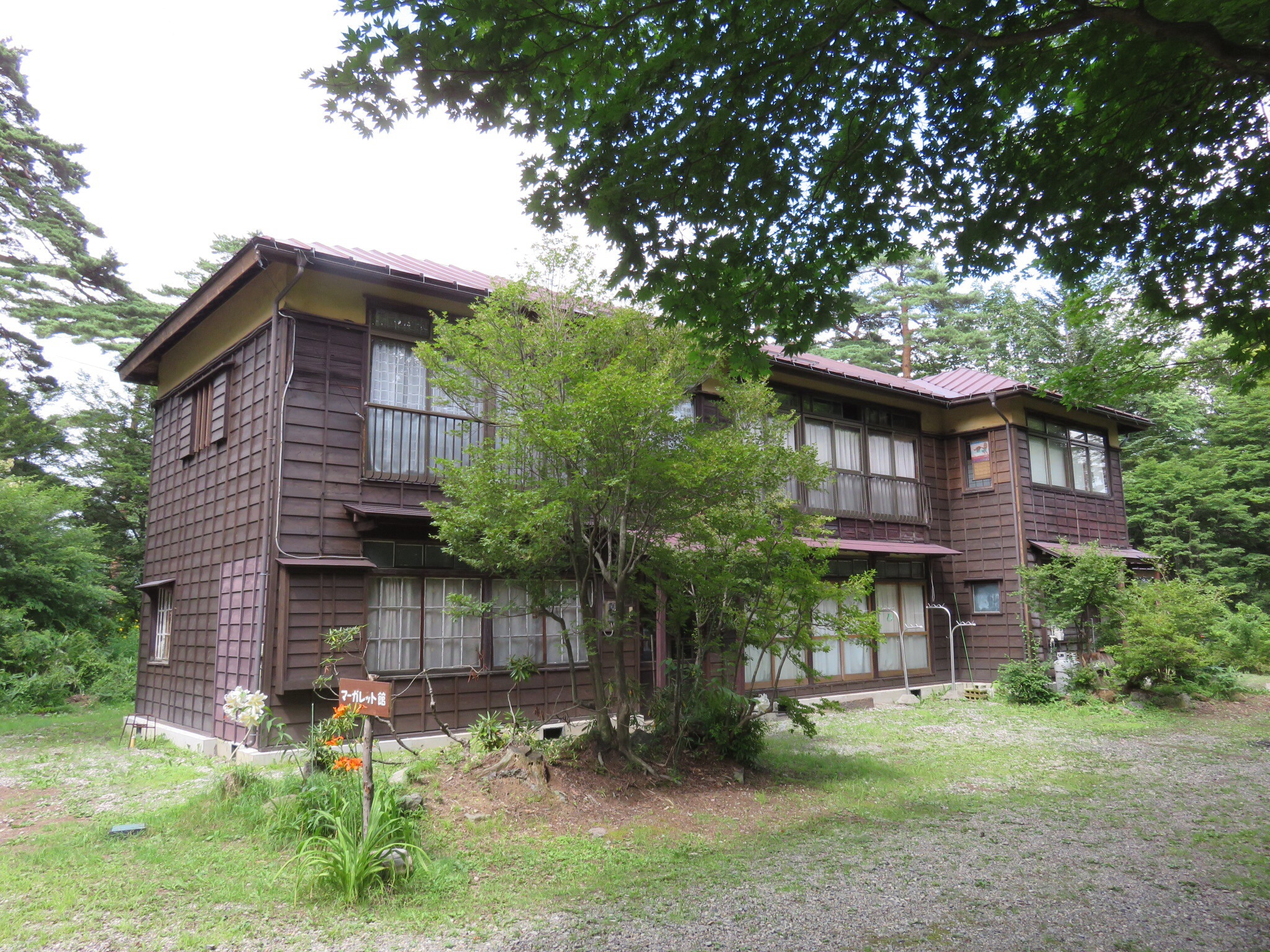 St. Margaret's Home, Kusatsu, Gunma